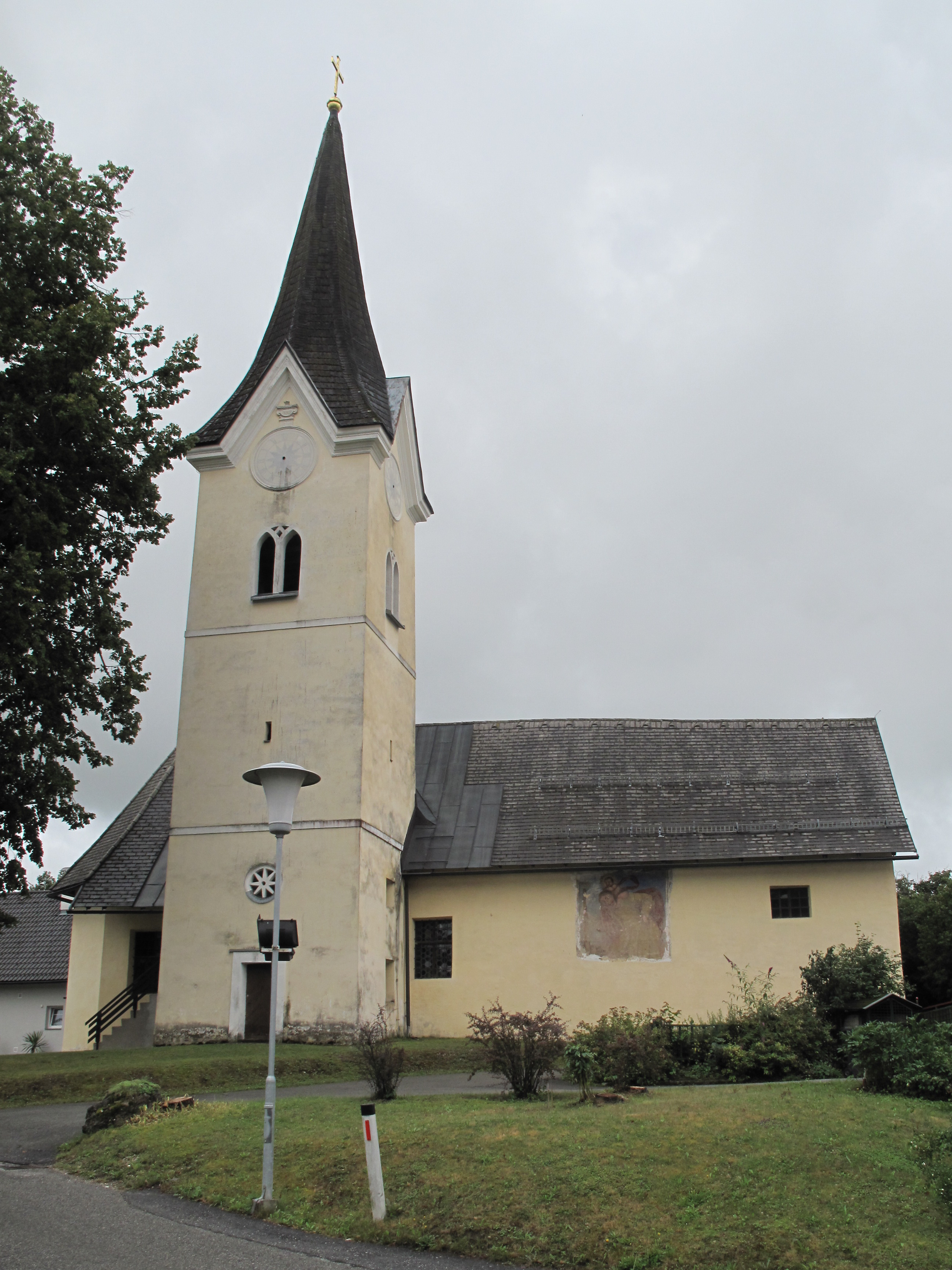 Sankt Gandorf, church